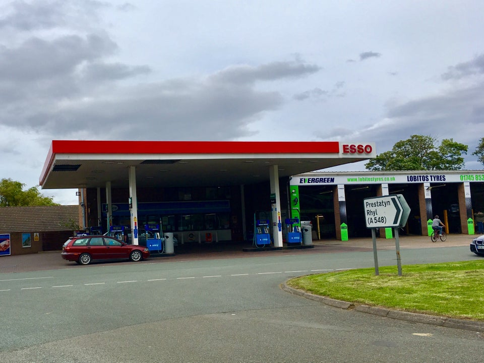 Lobitos Garage in 2020